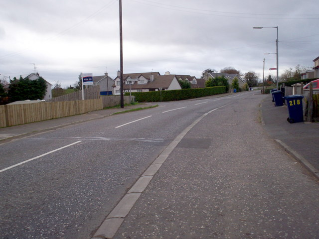 Dromore Road, Gamblestown near the Junction with the Lisnasure Road